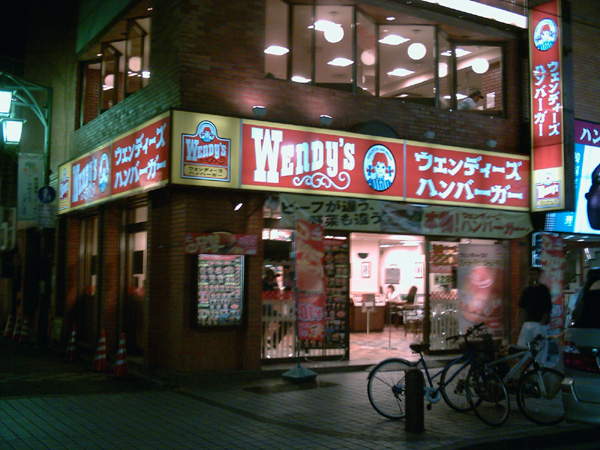 Wendy's_Fast food restaurant Japan photography day, 2006/11/14 photography person kici ウェンディーズ Wendy's